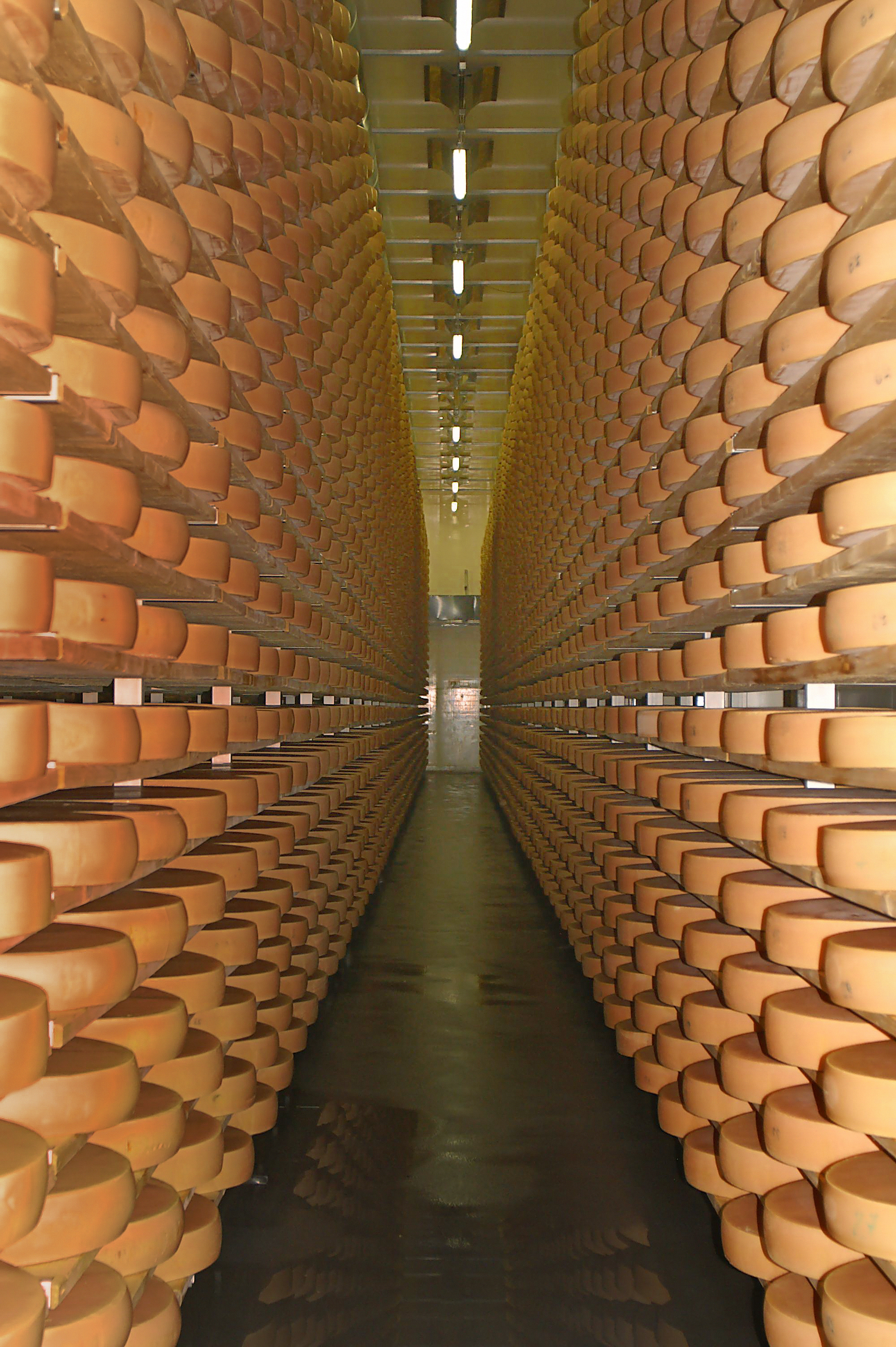 regional cheese cellar in Lingenau, in the Bregenz Forest along the cheese route. "Thank you to Mario for the permission to publish the artwork for Wikipedia and Wiki Commons"